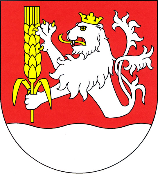 Municipal coat of arms of Mlékojedy village, Litoměřice District, Czech Republic.